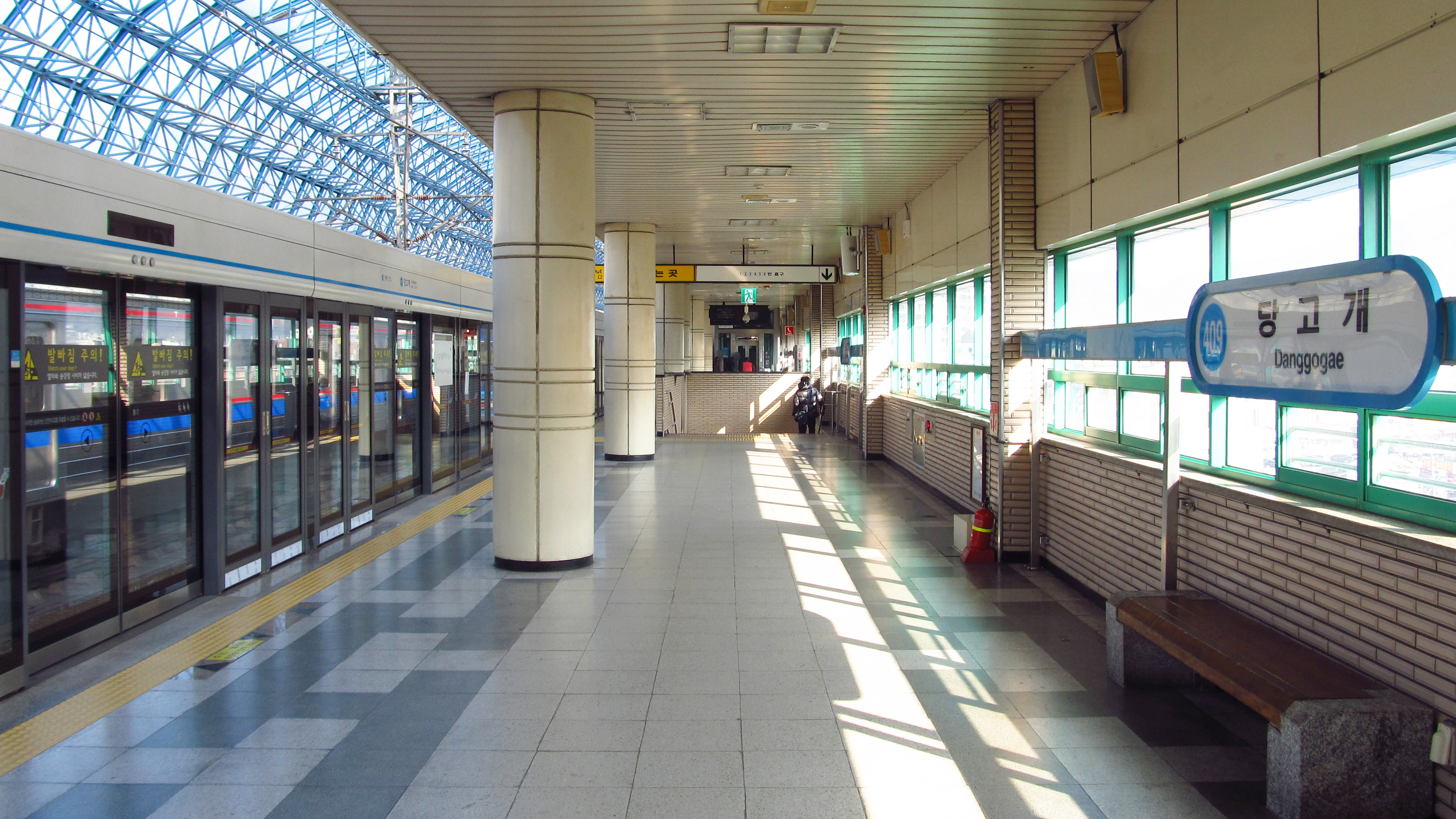 The platform at Danggogae Station on Seoul Subway Line 4 in Nowon-gu, Seoul, Republic of Korea(South Korea)